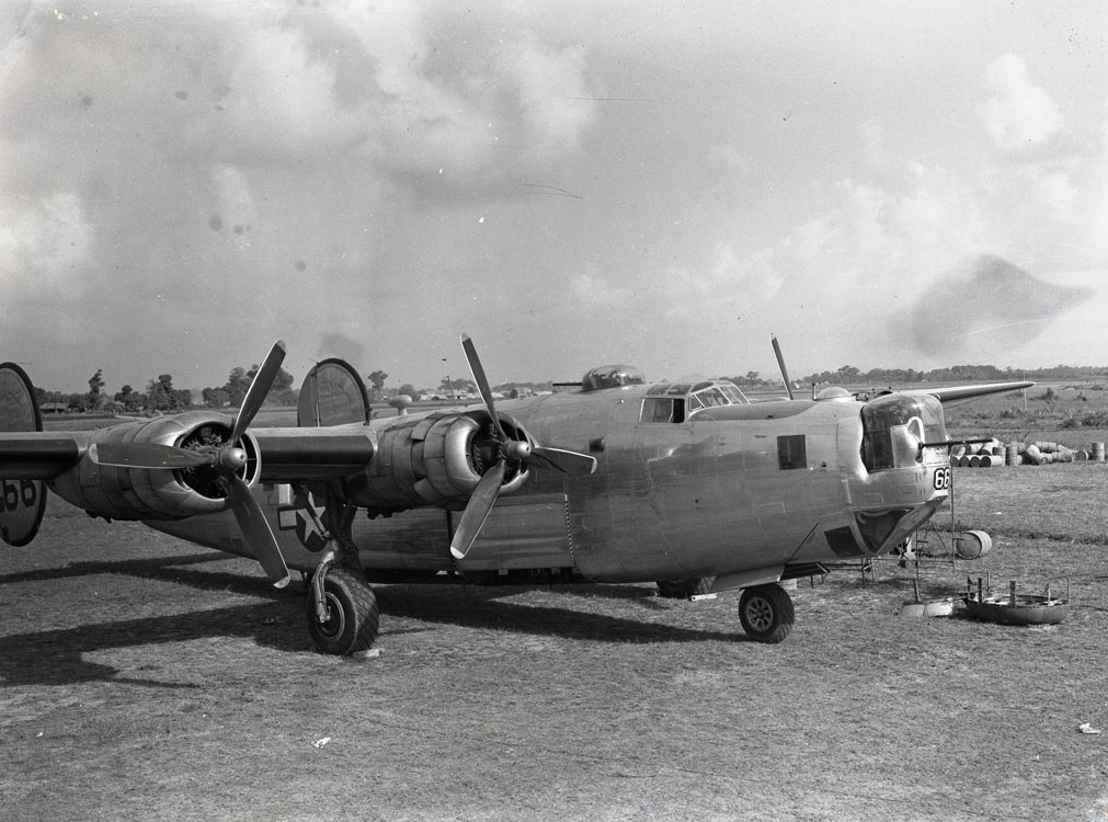 B-24 of 24th combat mapping sqdn., Gushkara air strip, Gushkara, India, 1945 Subject: "aircraft, military base"